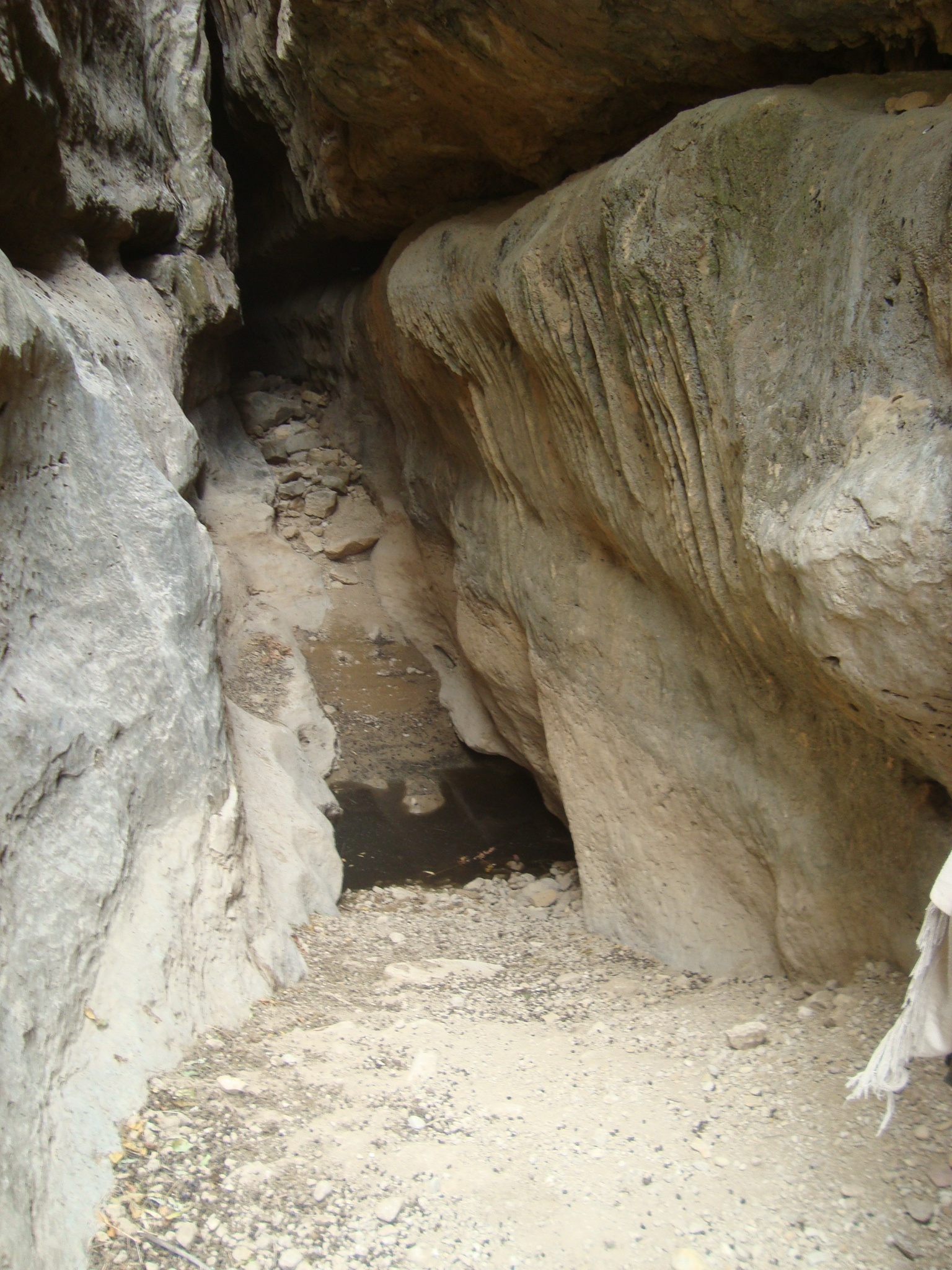 May Hibo cave